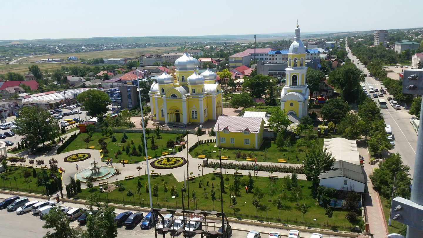 Aerial view of the St. John the Baptist Cathedral in Comrat